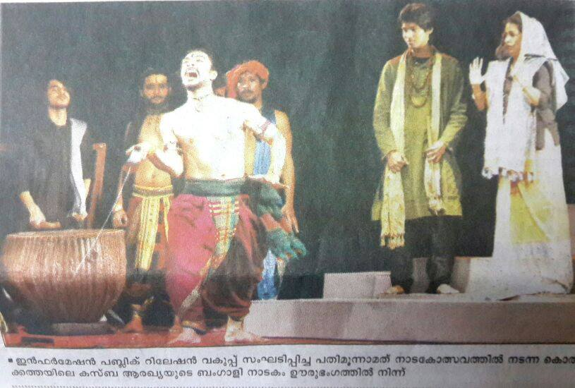 Rik Amrit as Krishna in the play 'Urubhangam' directed by Manish Mitra, a Kasba Arghya production